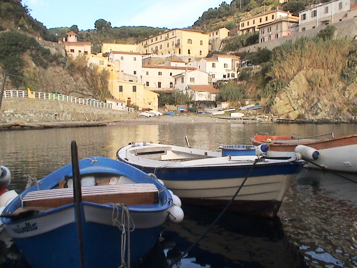 Italy, Tuscany, Gorgona Island. It is part of the Tuscan Archipelago and is the closest to Livorno. View of the marina and the village; the island is closed to tourism since 1869 because is an agricultural penal colony.